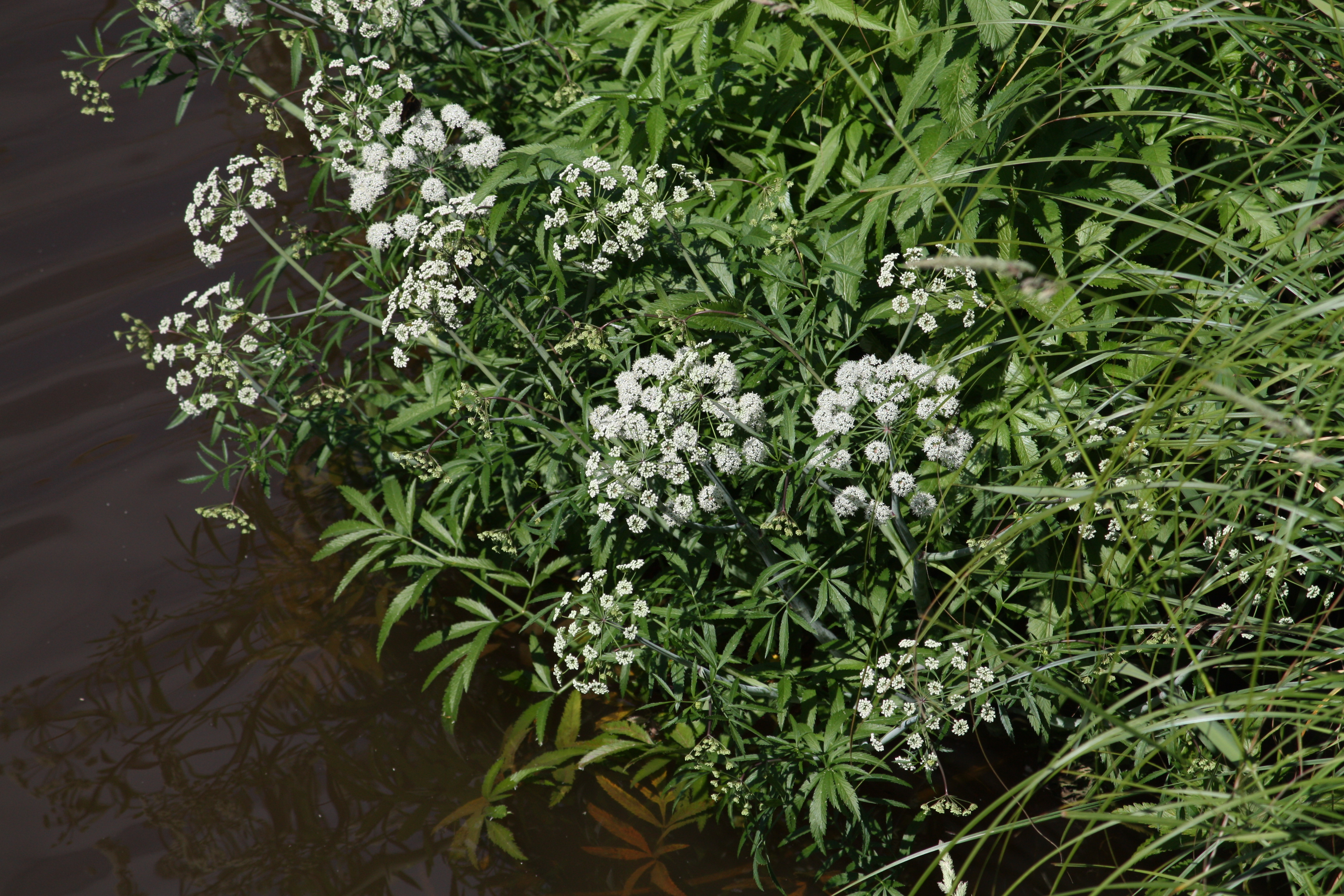 Cowbane or Northern Water Hemlock (Cicuta virosa) is growing by Keravanjoki river in Kerava, Finland.